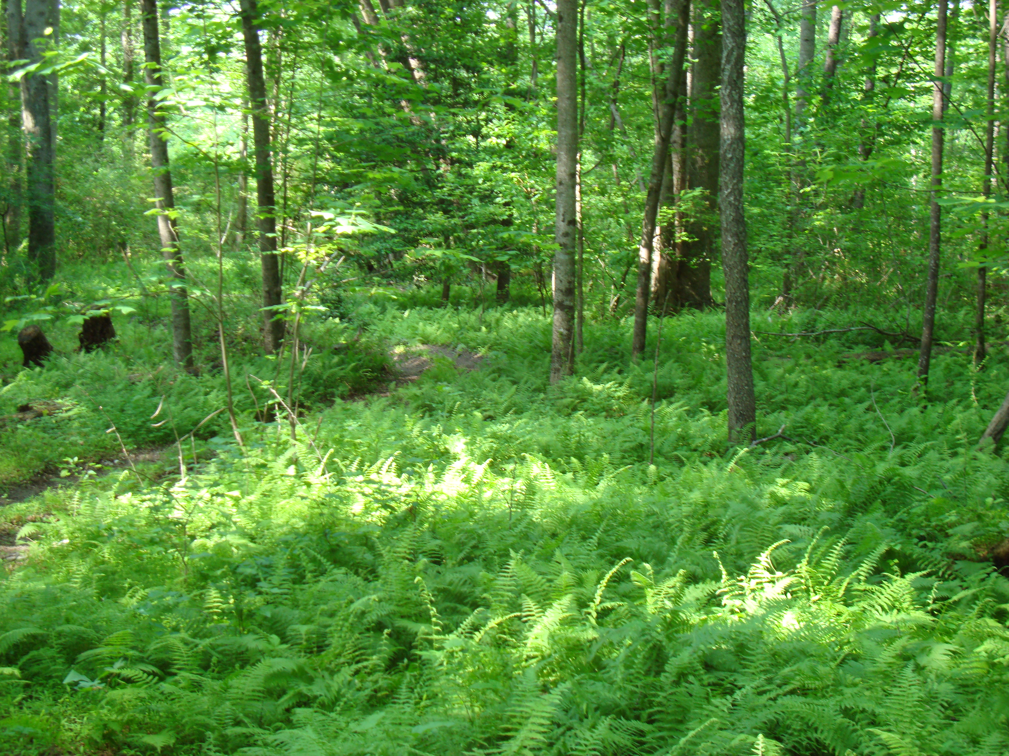 Fern bed under a forest canopy in woods near Franklin, Virginia.